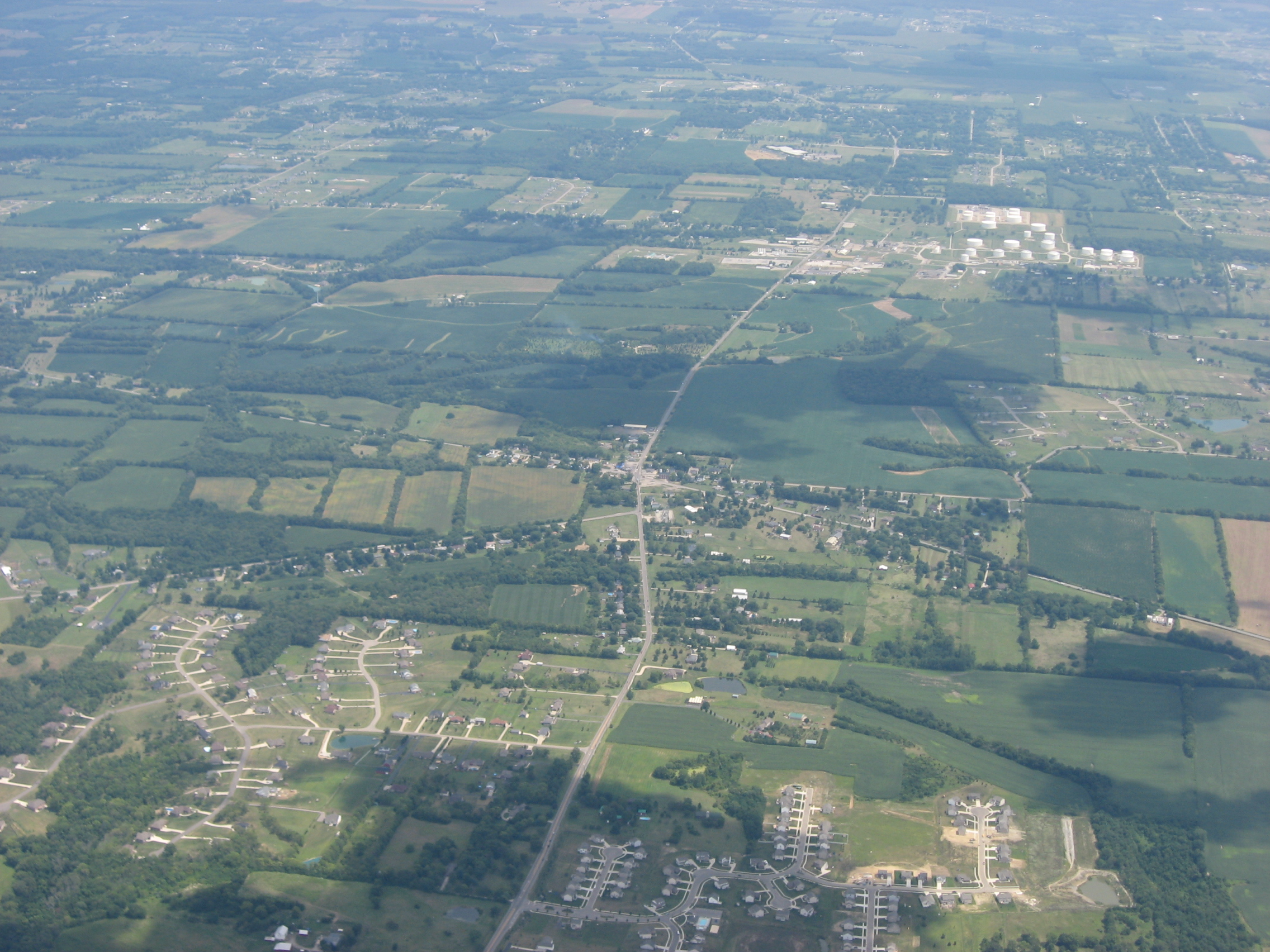 Aerial view of Red Lion, a small community in Clearcreek Township, Warren County, Ohio, United States. Picture taken from a Diamond Eclipse light airplane at an altitude of 5,100 feet MSL and a bearing of approximately 90º.